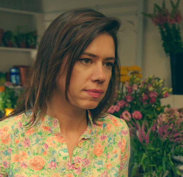 Lou Sanders in "Elderflower".